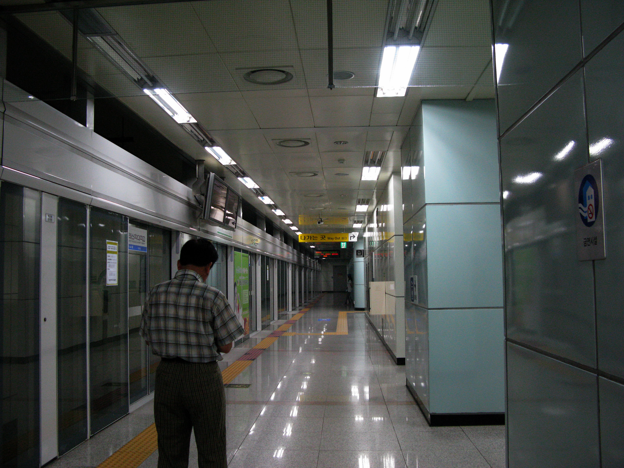 Daejeon Subway Line 1 Seodaejeonnegeori Station